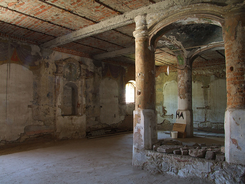 Small Synagogue in Kraśnik